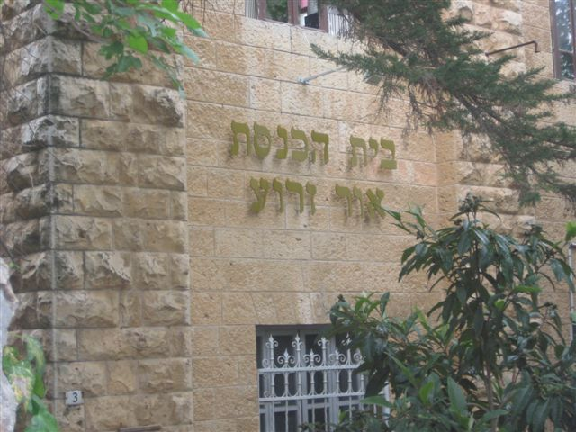 Or Zaruaa Synagogue and Beit Midrah founded by Rabbi Amram Aburbeh, 3 Refaeli Street, Jerusalem, Israel. This Or Zaruaa Synagogue of the Ma'araviim congregation in Nachlaot neighbourhood was built by Rabbi Amram Aburbeh in 1926.